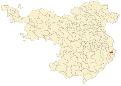 Regençós